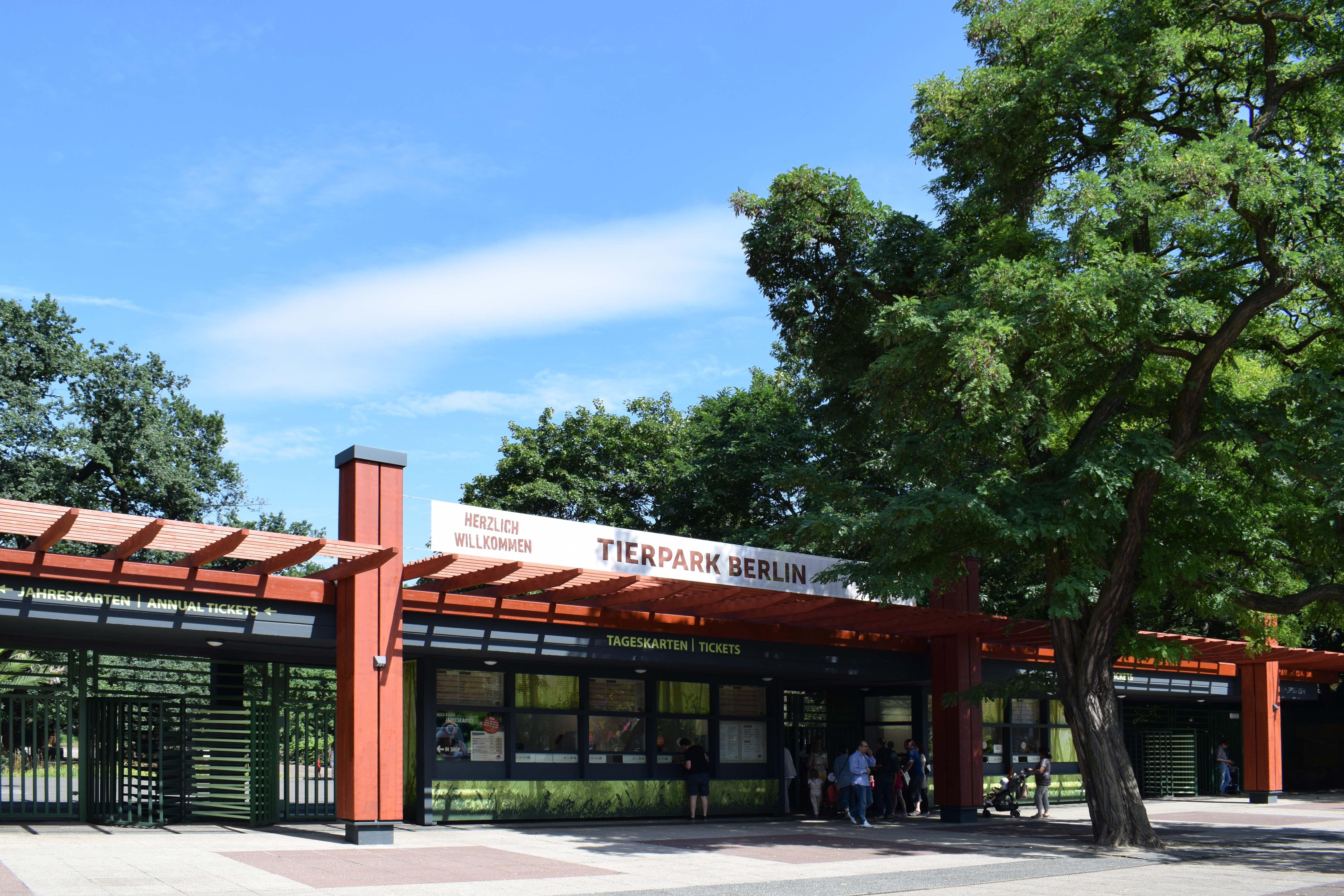 The new main entry in 2016.